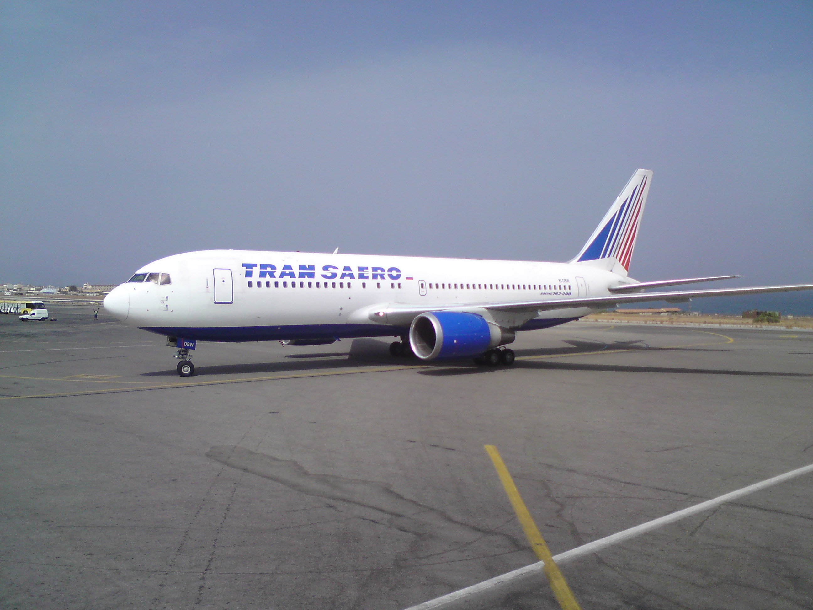 Transaero's Boeing 767-200ER reaches its final parking position at 'Nikos Kazantzakis Airport' at Heraklion, Crete. Seen here on Sep 26th 2010.